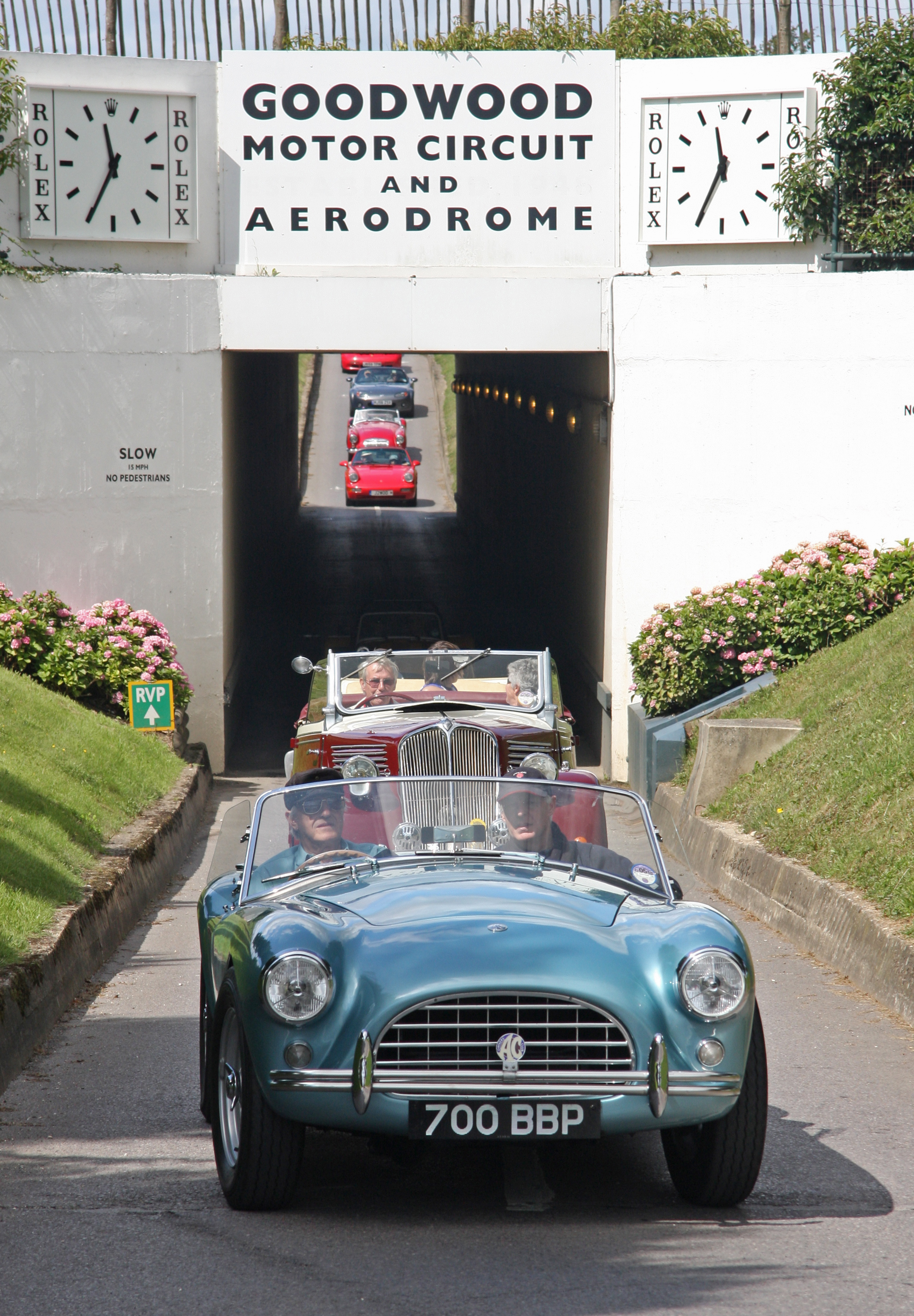 AC Ace at Goodwood